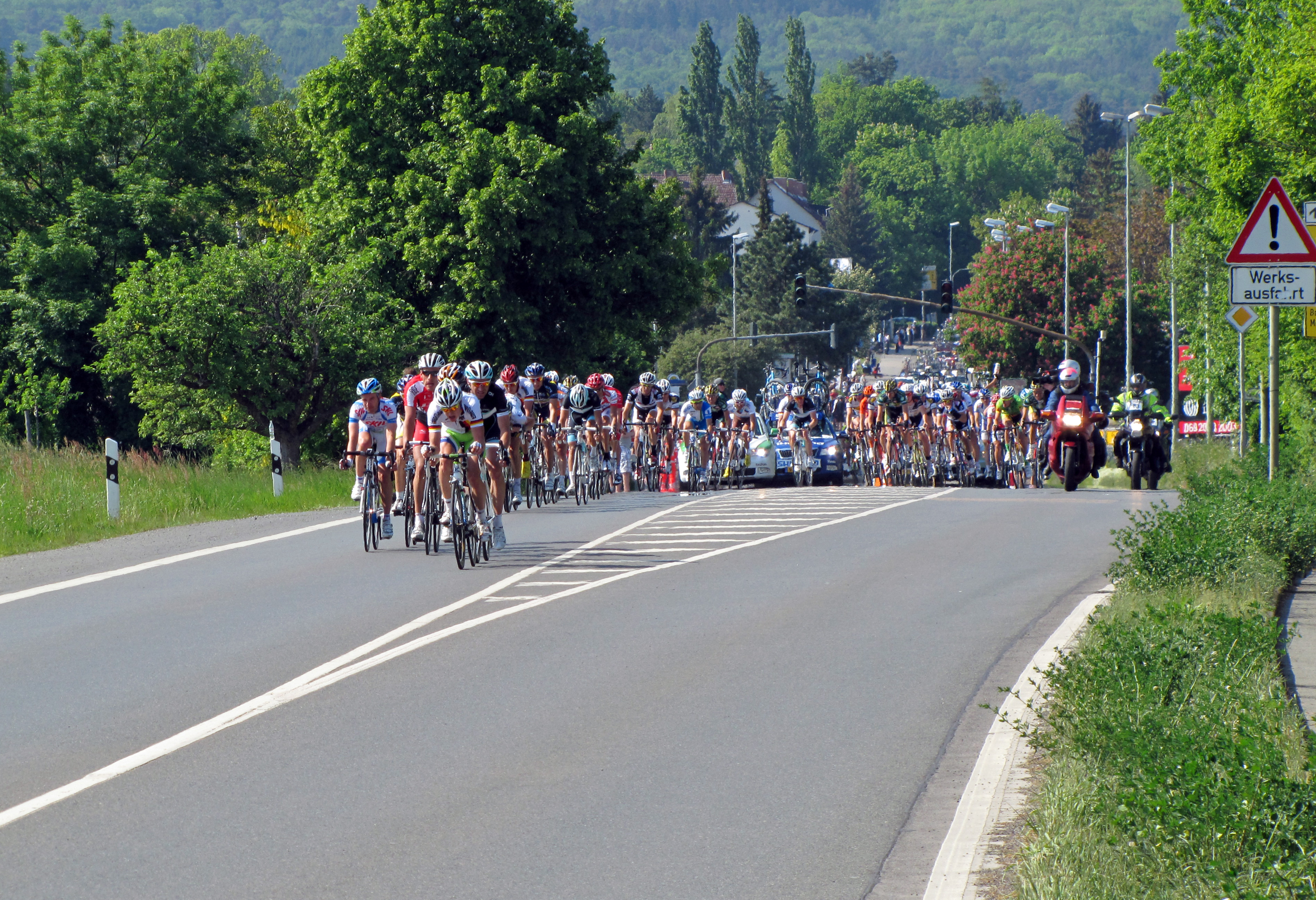 The field of Eschborn-Frankfurt City Loop 2011, about km 169 of 201, at Kronberg, Hesse, Germany.